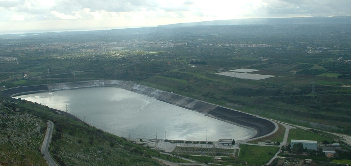 Solarino, the hydroelectric powerplant of Anapo river